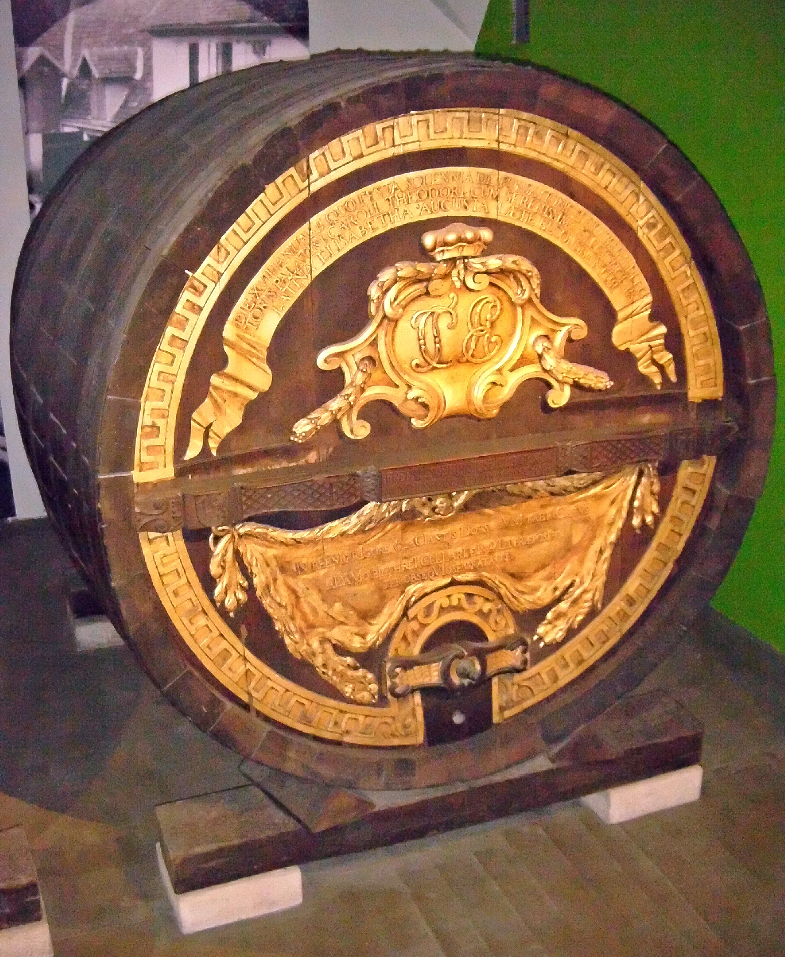 Prunkfass zur Silberhochzeit des Kurfürsten Karl Theodor, gefertigt 1766 von Hofküfer Adam Bieth, Historisches Museum der Pfalz, Speyer